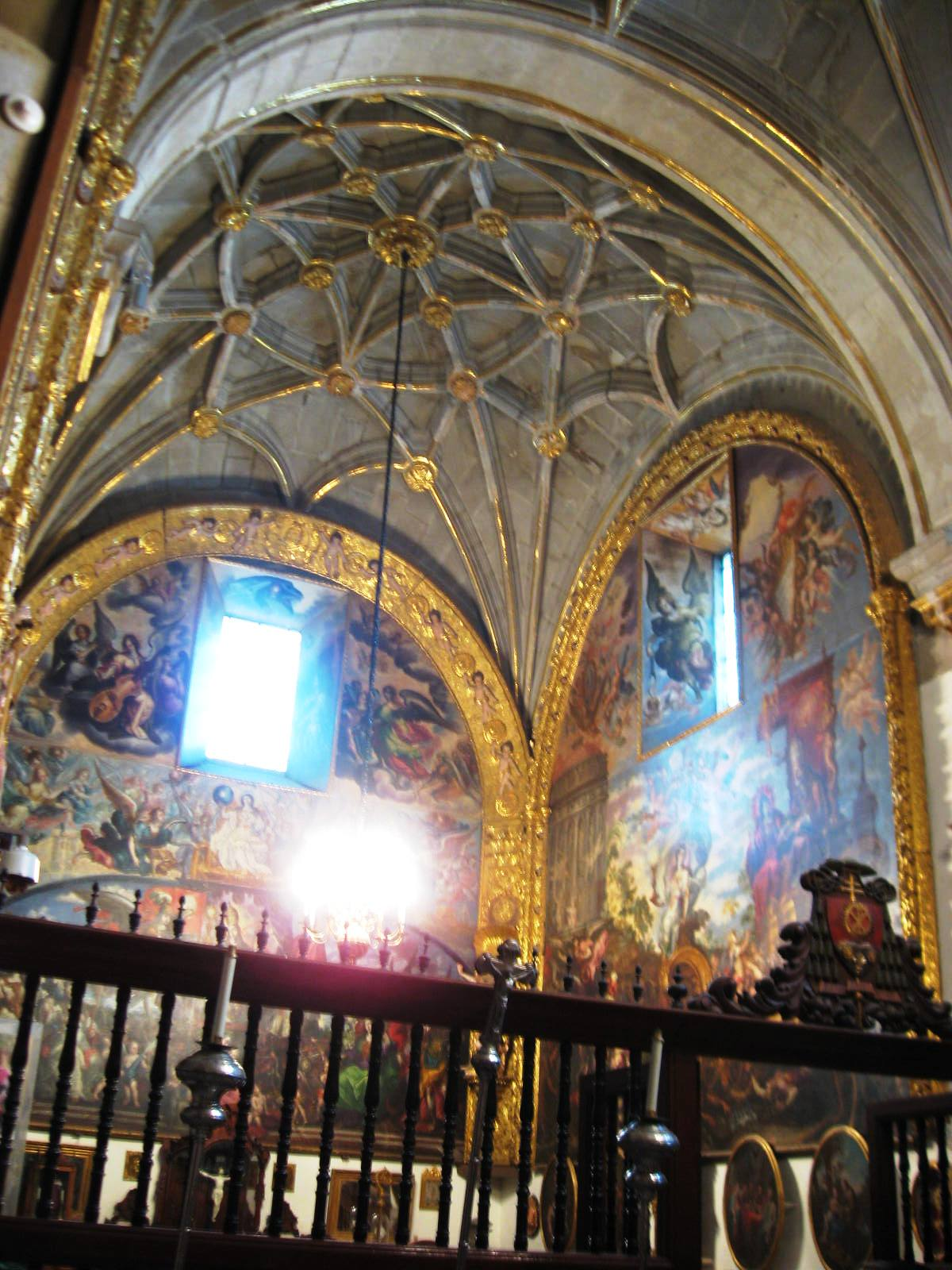 Dome of the Sacristy of the Mexico City Cathedral